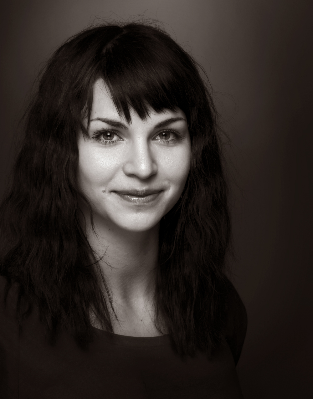 Ida Elise Broch at KHiO, Norway in 2012